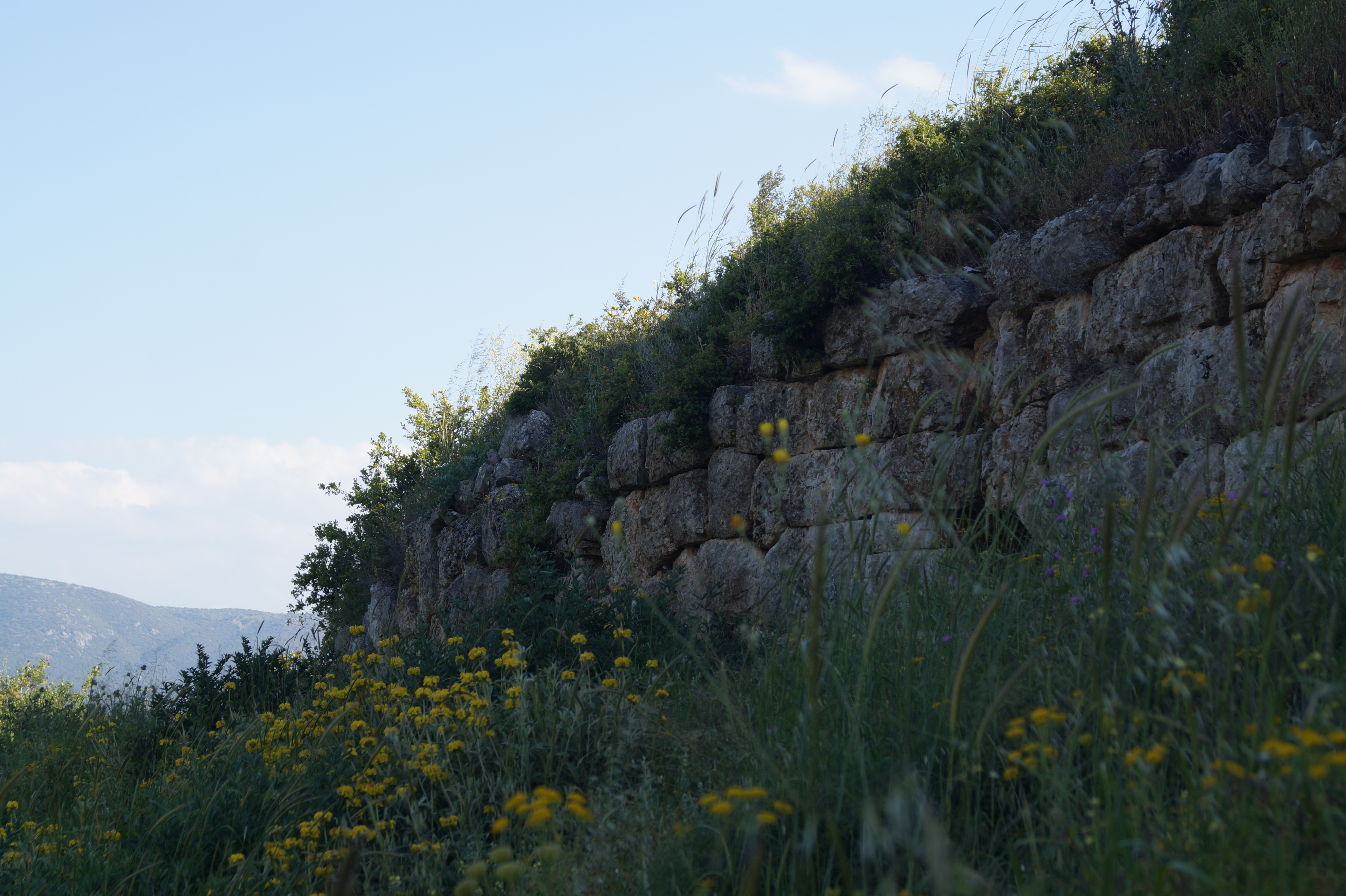 Achladokampos, Peloponnes, Greece: East wall of Hysiae.